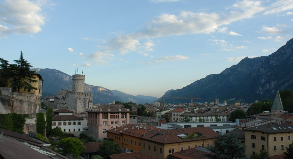 Panoramic view of Trento. Picture taken by Giovanni Iachello.